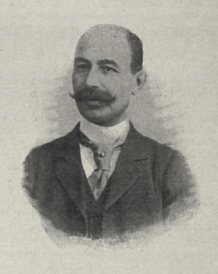 Sándor Bihari (painter)